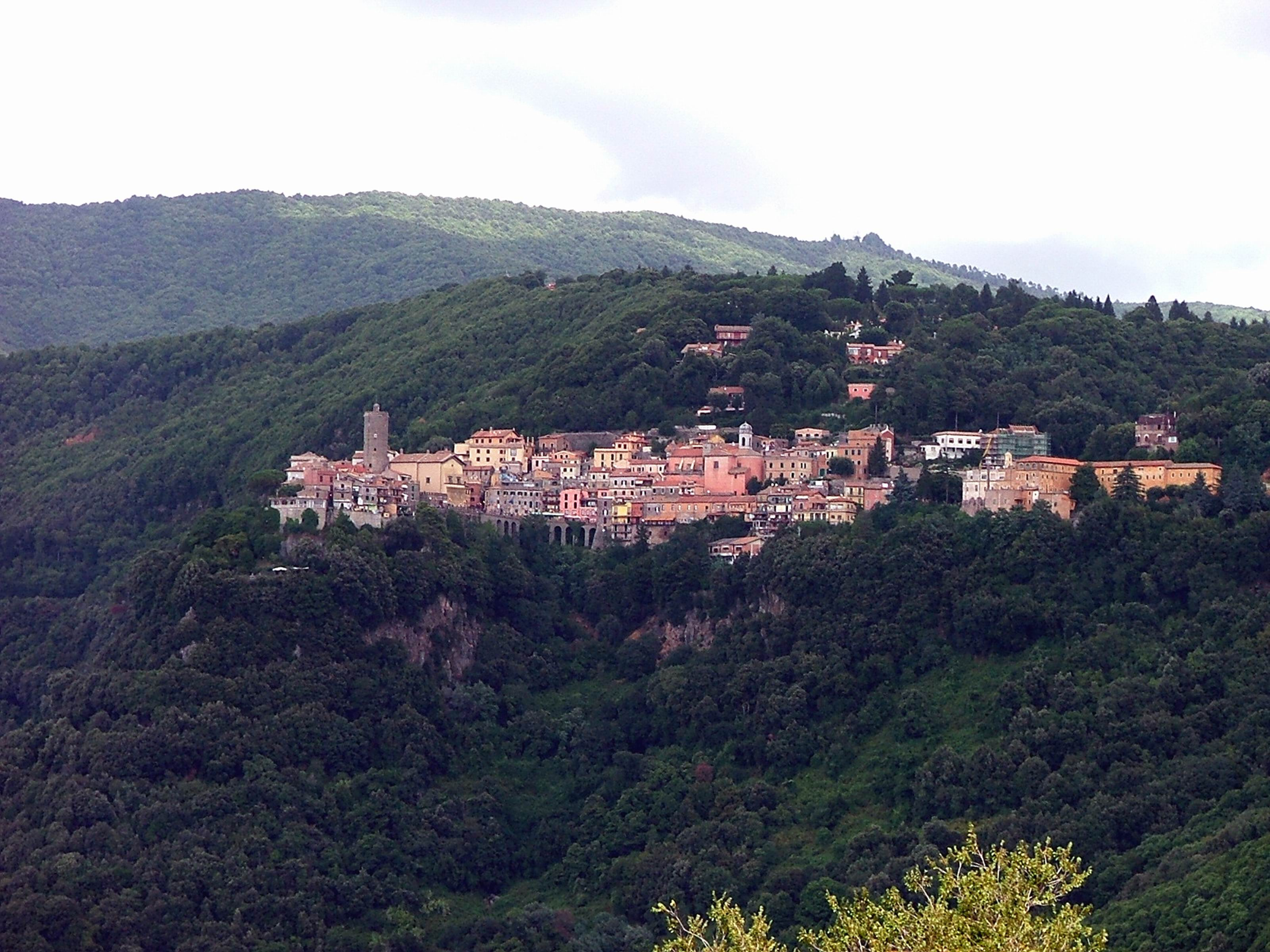 Nemi - view of the town